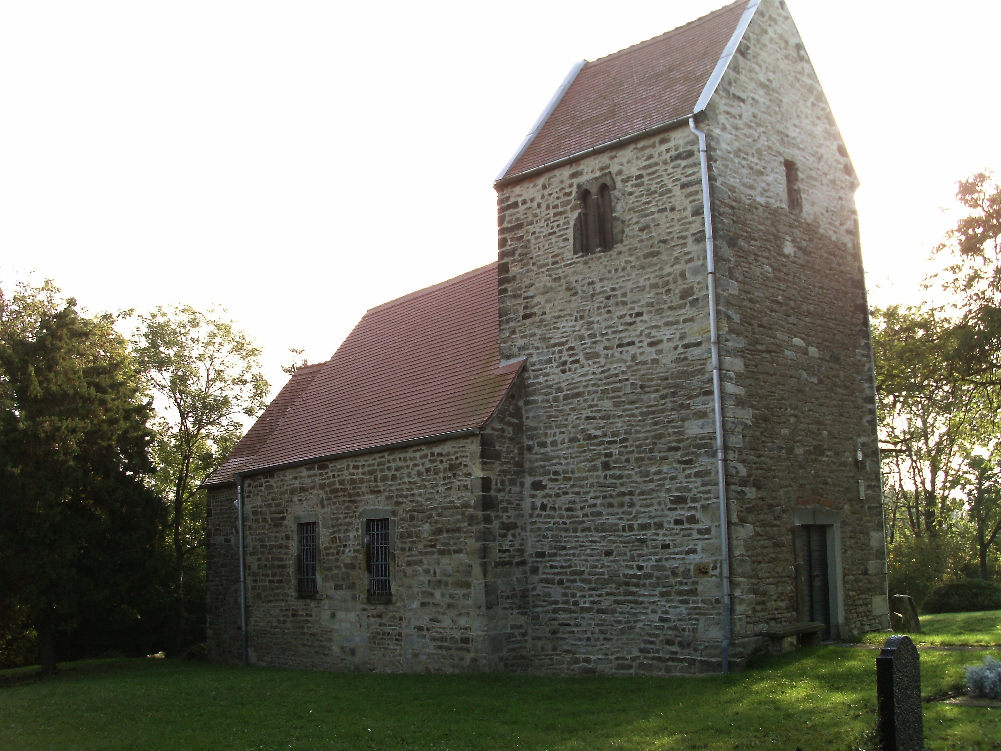 Church of the abandonned village of Treben near Dehlitz/Saale (Lützen, district of Burgenlankreis, Saxony-Anhalt)